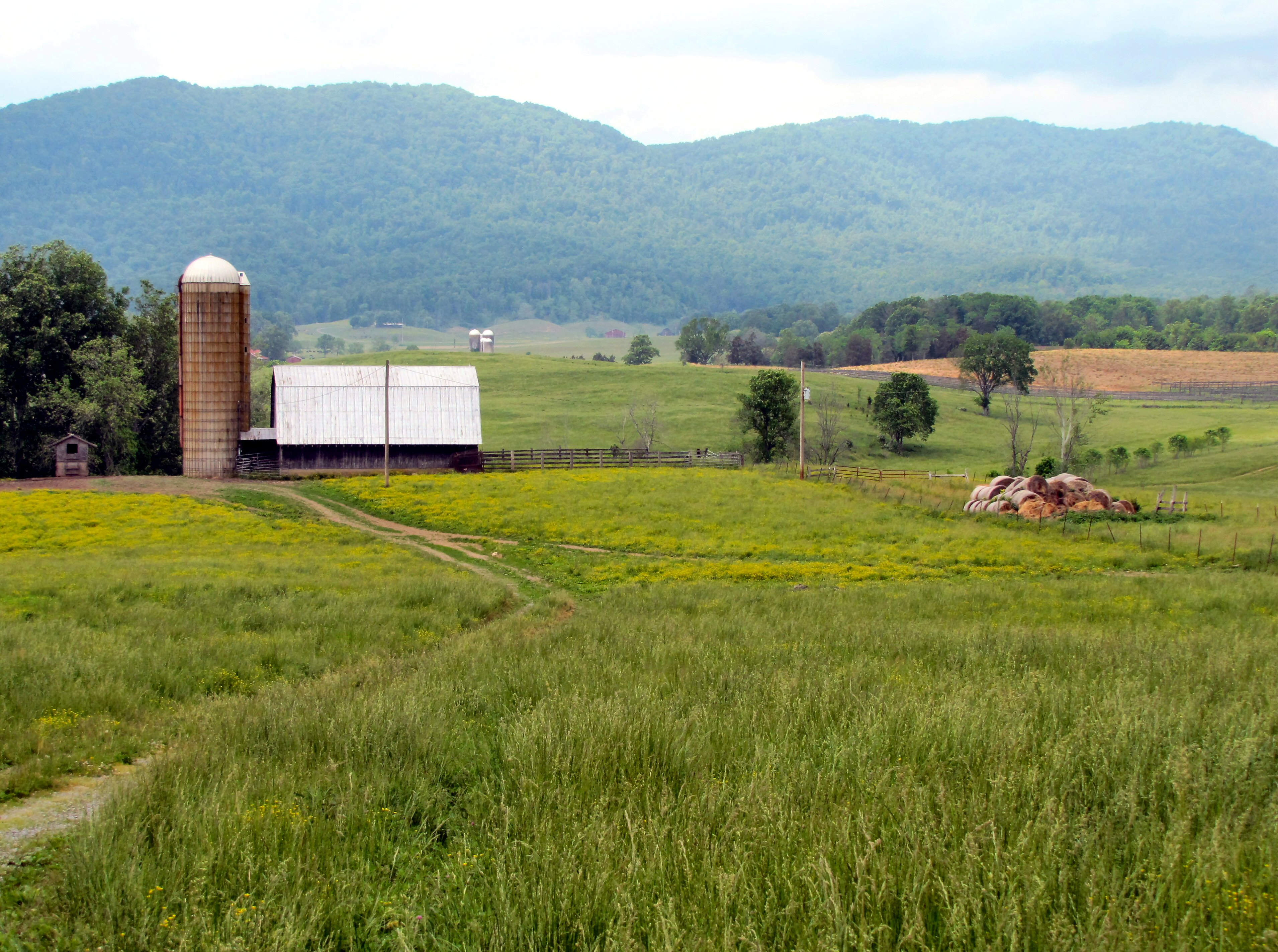 Farm near Speedwell in Claiborne County, Tennessee, United States, viewed from Back Valley Road. Cumberland Mountain spans the horizon.